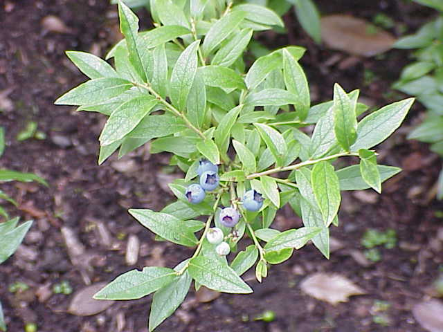 Species: Vaccinium angustifolium Family: Ericaceae Image No. 2